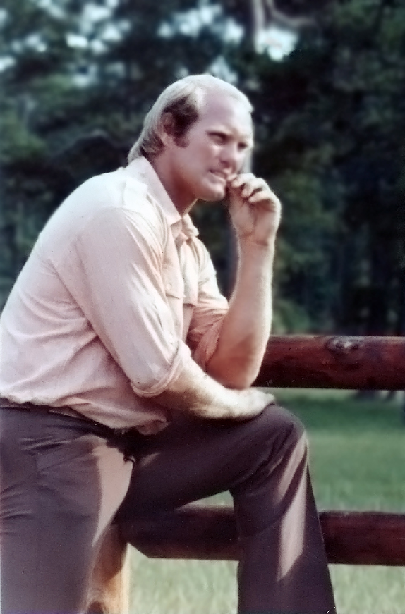 Terry Bradshaw at his Quarter Horse ranch in Louisiana.